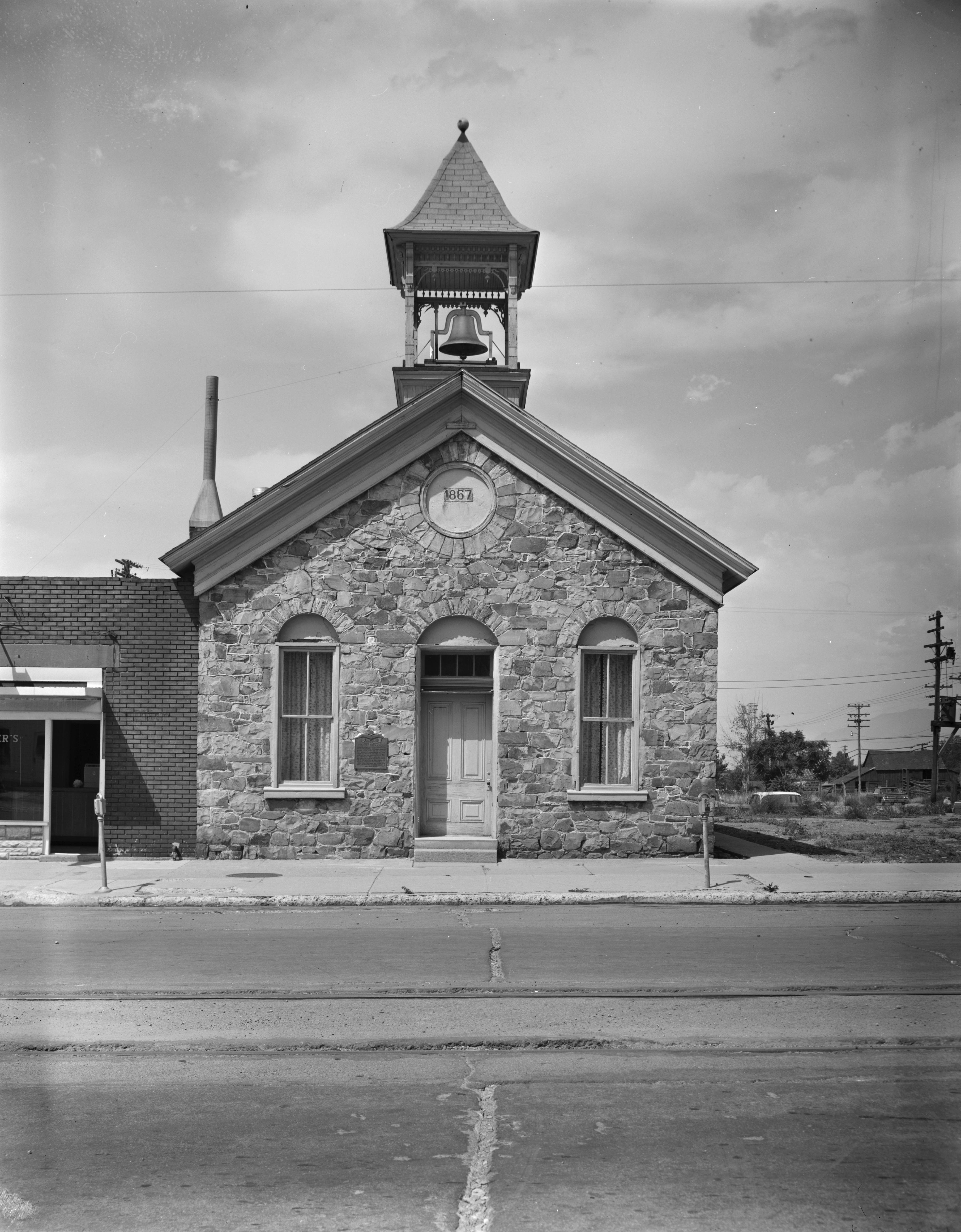 Front of the Tooele County Courthouse and City Hall, located at 71 E. Vine Street in Tooele, Utah, United States. Built in 1867, it is listed on the National Register of Historic Places.